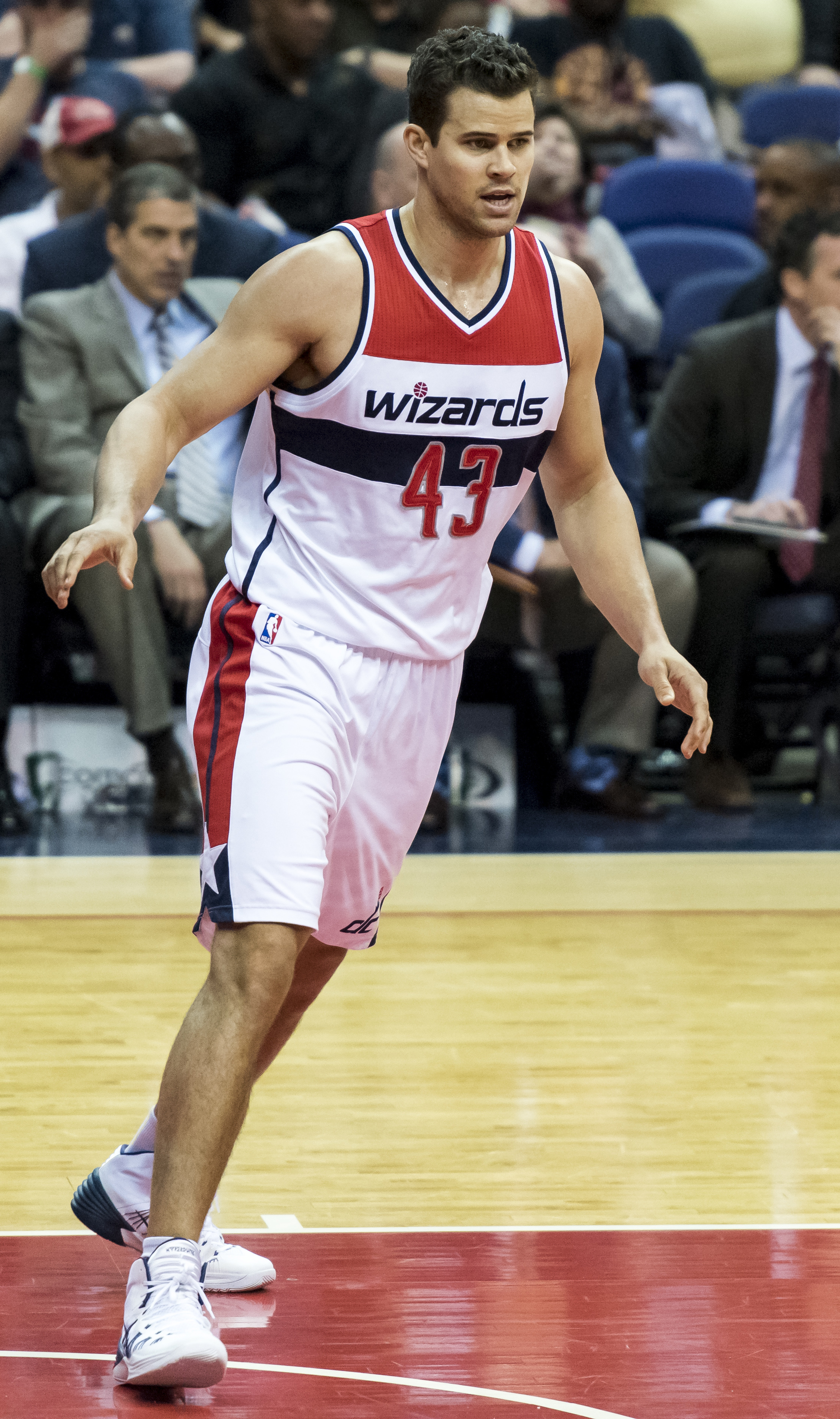 kris humphries washington wizards verizon centre 2015 v atlanta hawks